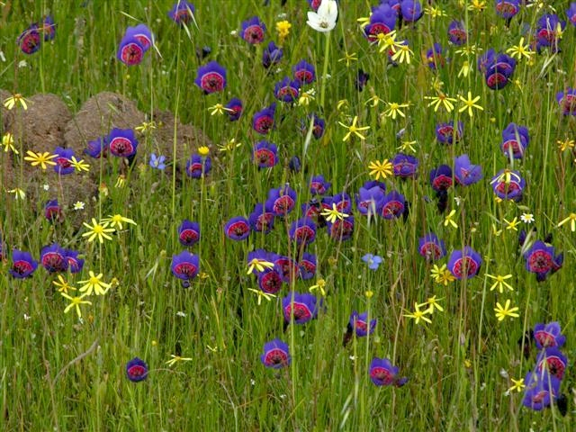 Geissorhiza radians in situ / South Africa